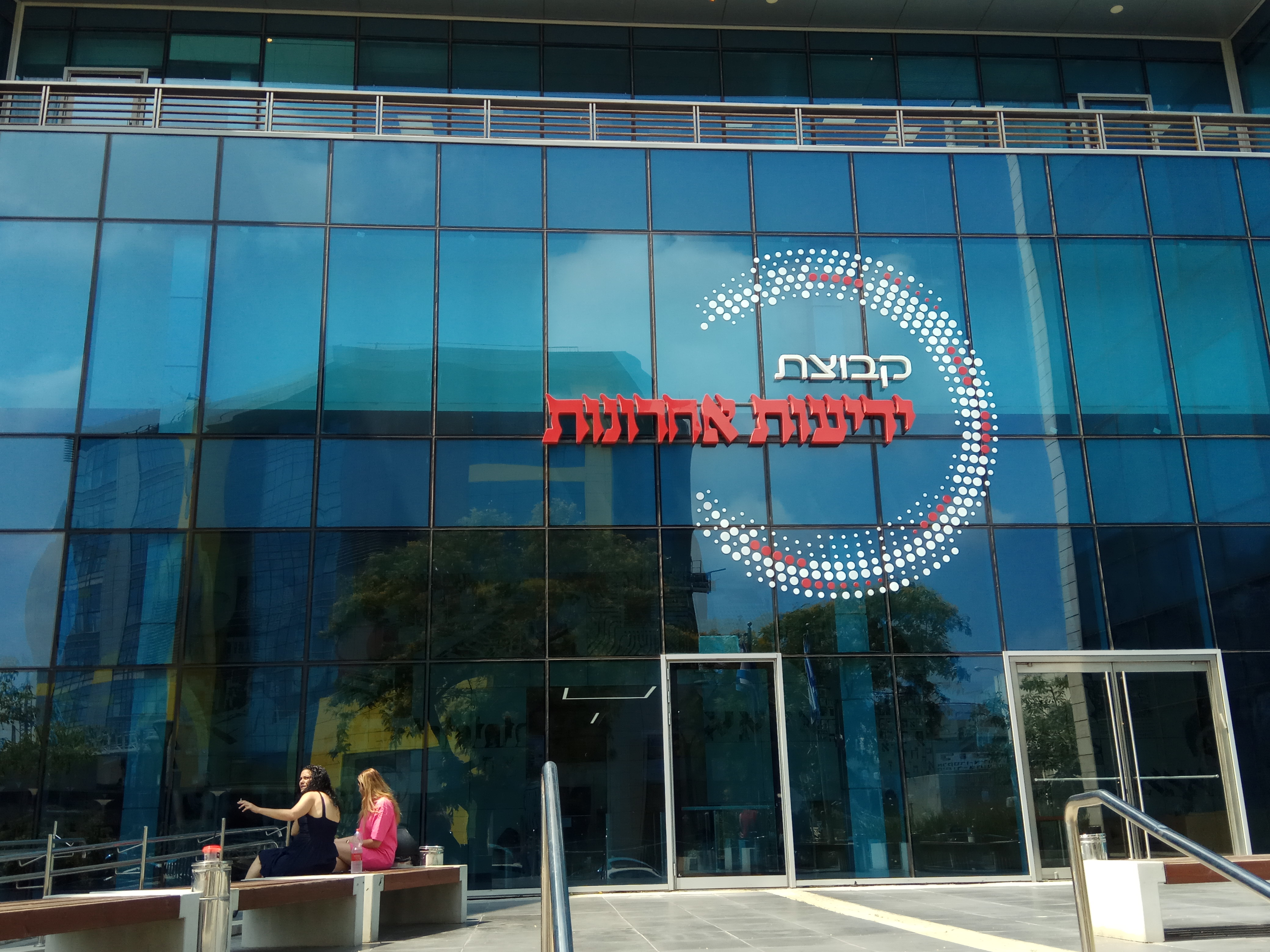 Yedioth Ahronoth building